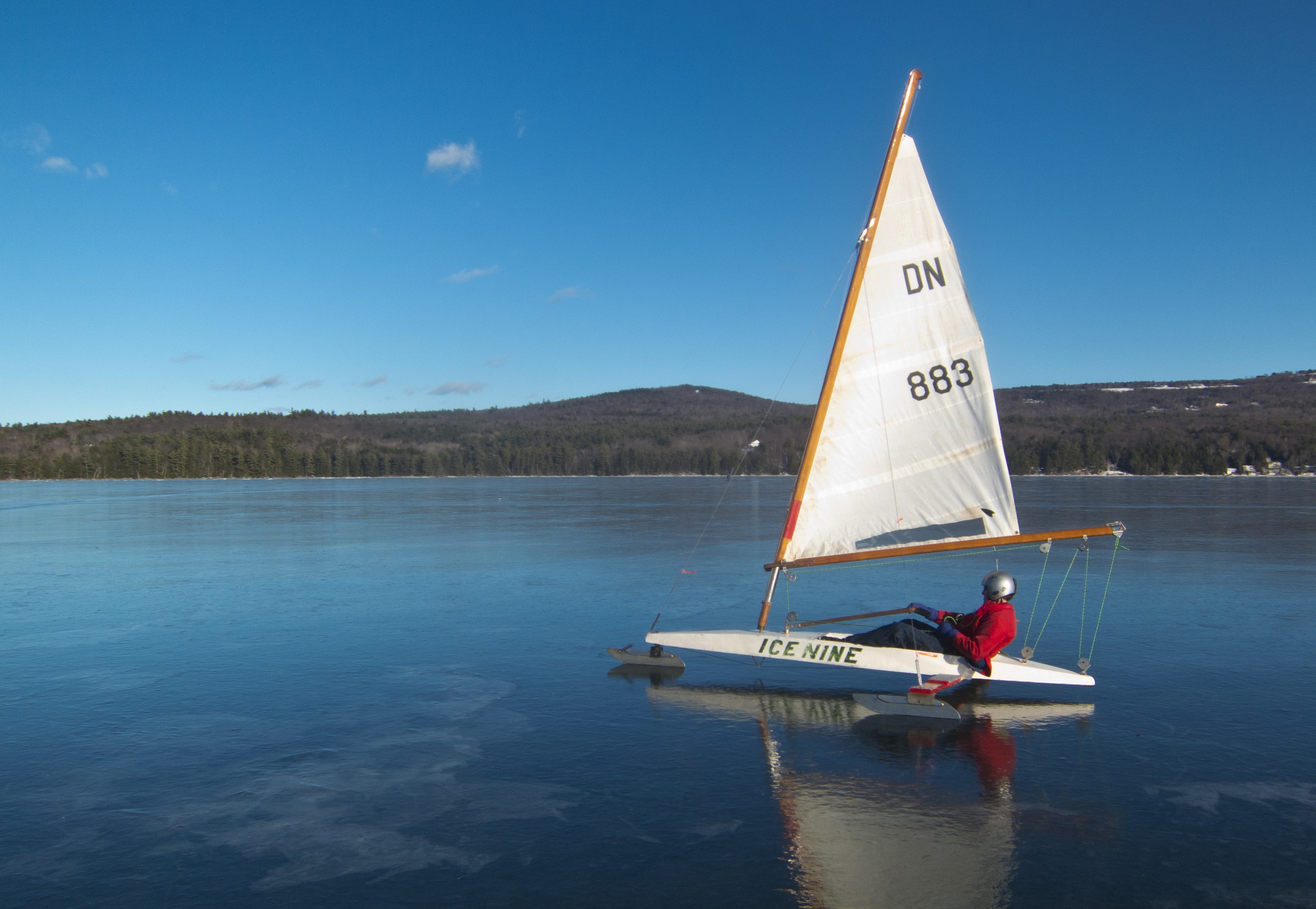 DN class iceboat, sailing on Lake Sunapee, New Hampshire in the U.S.A. Shown with a storm-sail.